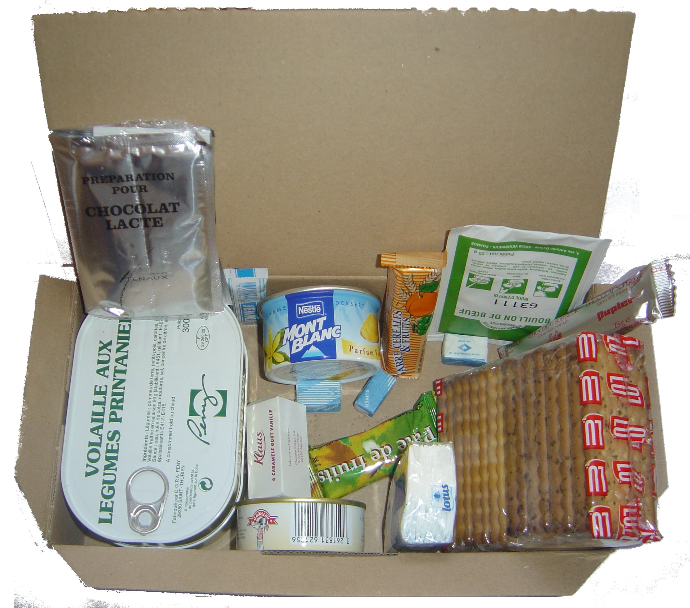 French army combat ration